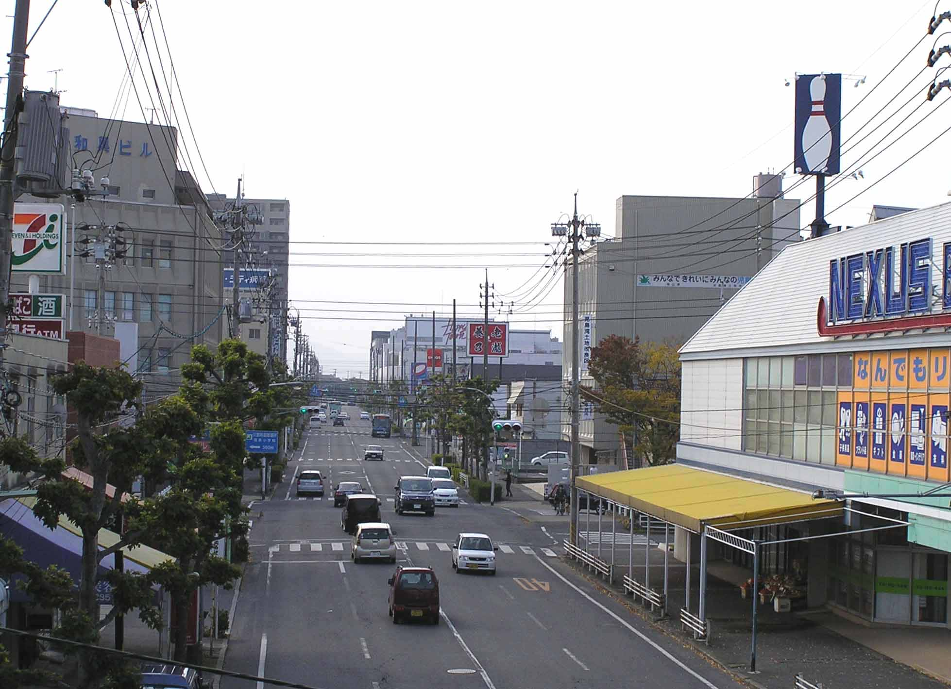 Kounan town 2